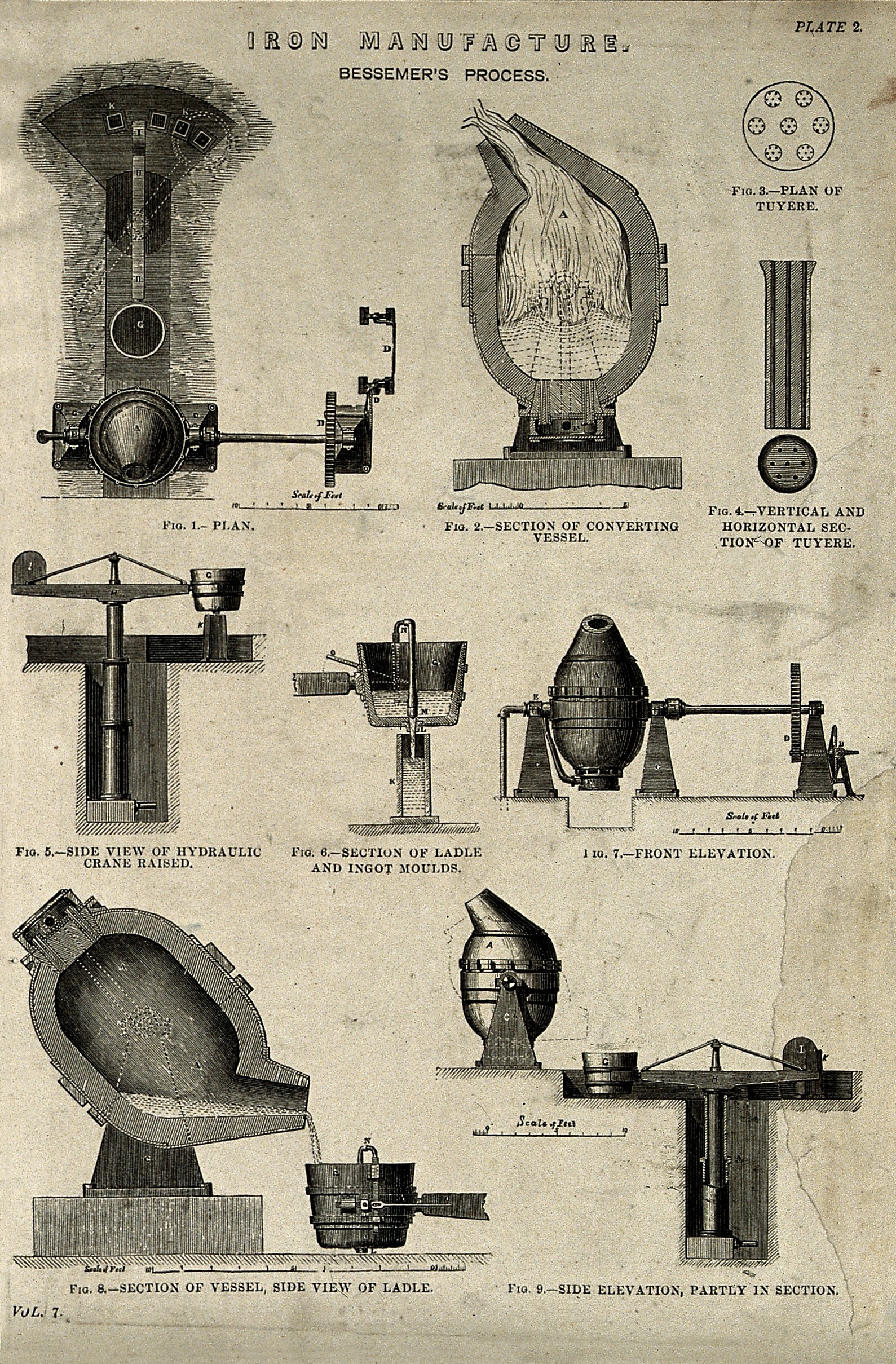 Iron: various machines involved in the Bessemer process of steel manufacture. Engraving c.1861. Iconographic Collections Keywords: Henry Bessemer